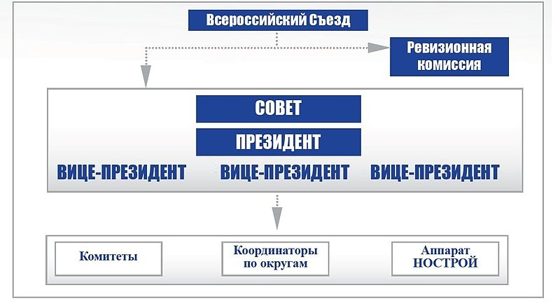 Структура